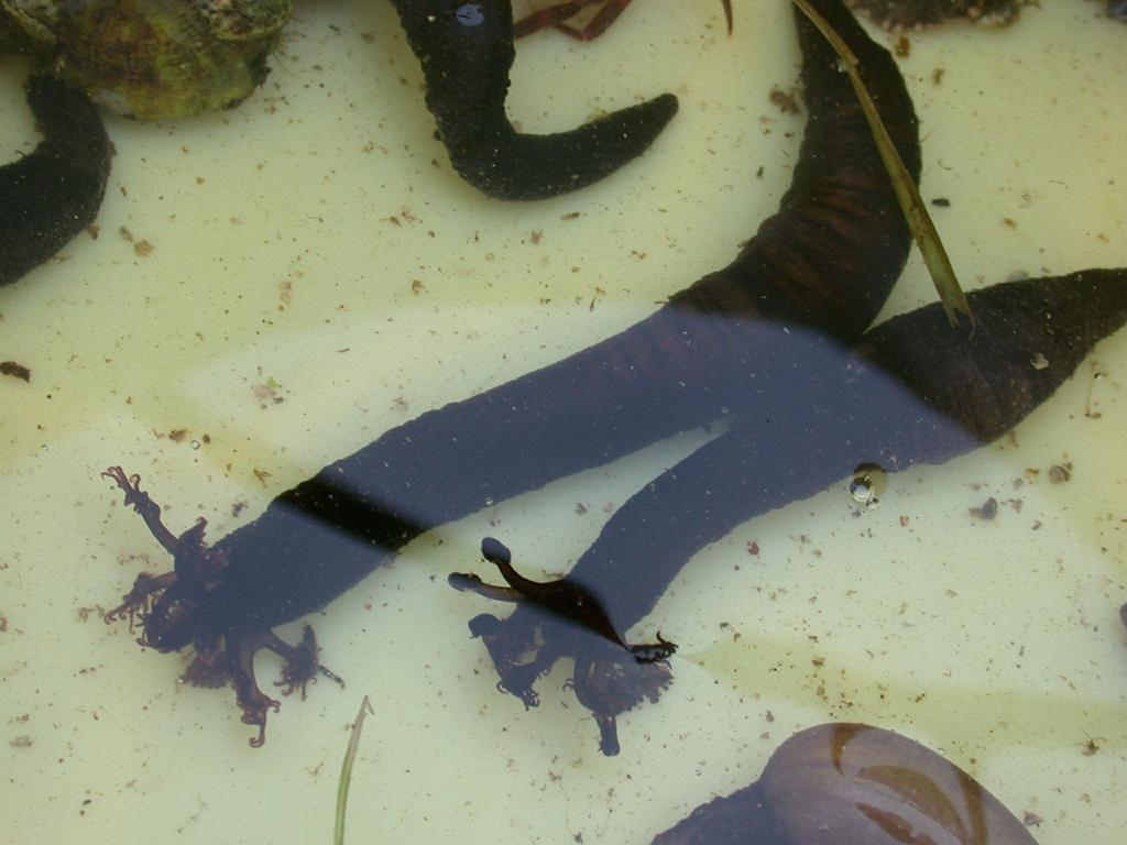 Polycheira rufescens(Echinoidea,Echinodermata) Japanese name:Murasakikurumanamako Date;2007,05,18;Tenjinzaki,Tanabe city, Wakayama prefecture, Japan Author;Keisotyo